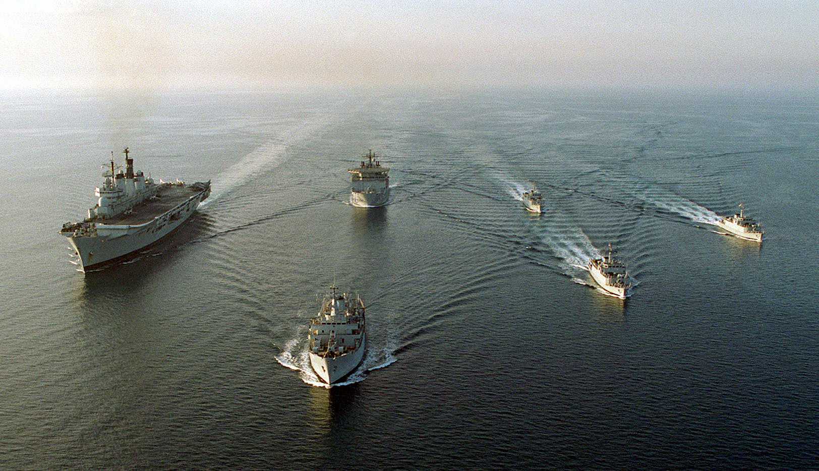 Northern Persian Gulf rendezvous: Ships of the British Royal Navy's Third Mine Countermeasures Squadron briefly meet the aircraft carrier HMS ILLUSTRIOUS (left). The Faslane Based Mine Hunters INVERNES, BRIDPORT, and SANDOWN (right), were accompanied by their support ship Royal Fleet Forward Repair Ship, DILIGENCE (center front) and the survey ship HMS HERALD (center rear).